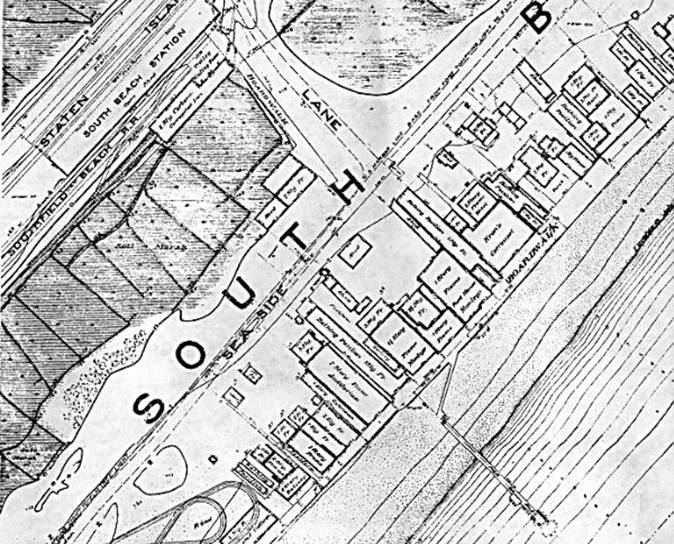 Here is a 1907 Borough Hall survey for the area around the SIRT South Beach station. Notice the station was also a terminus for the Southfield Beach Railroad. This company ran a trolley line across the marshes and meadows from South to Midland Beaches. Passengers arriving at South Beach could simply cross the platform and travel the extra mile or so to Midland Beach